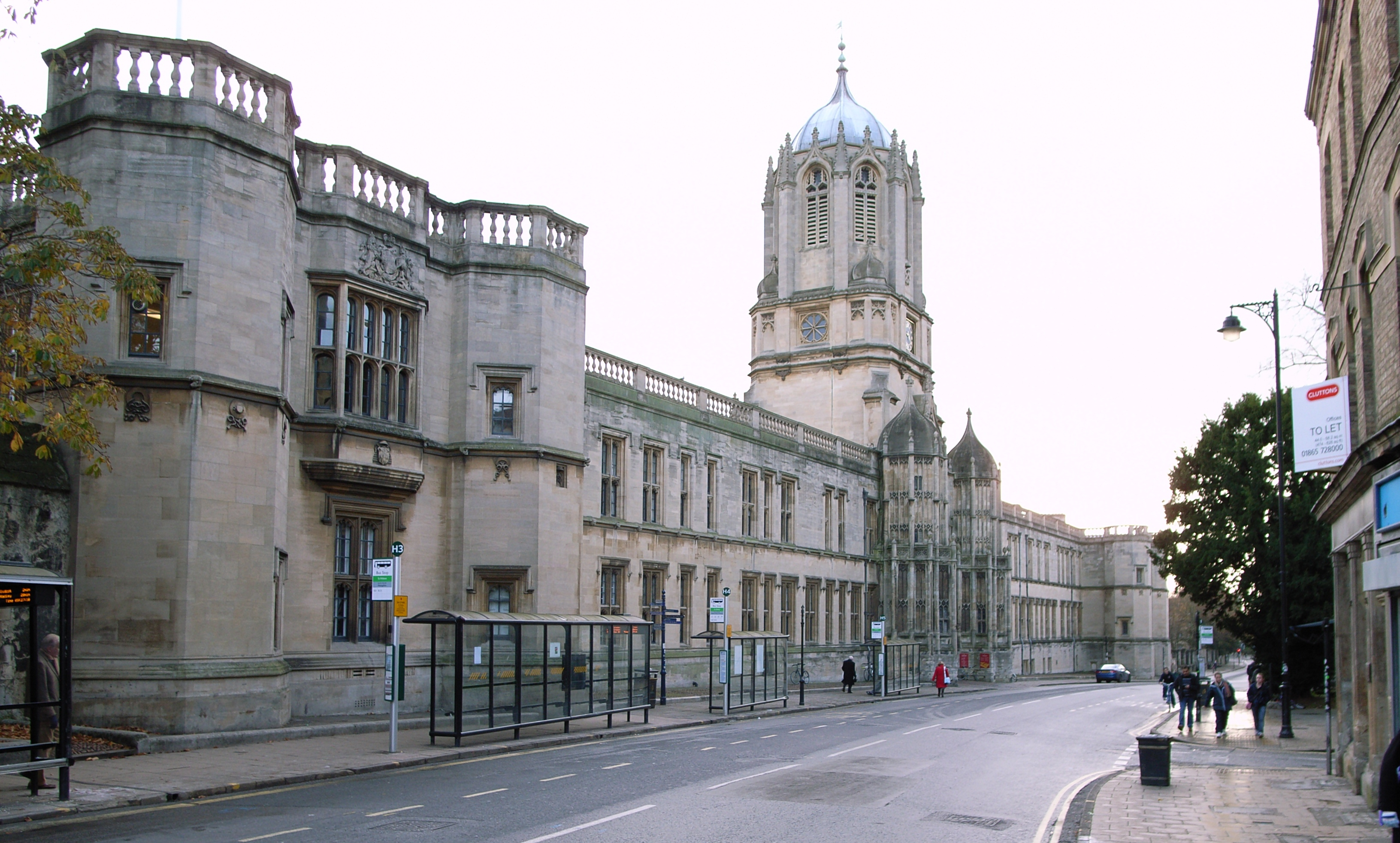 Christ Church College, Oxford with the Tom Tower (1681-82) by Christopher Wren